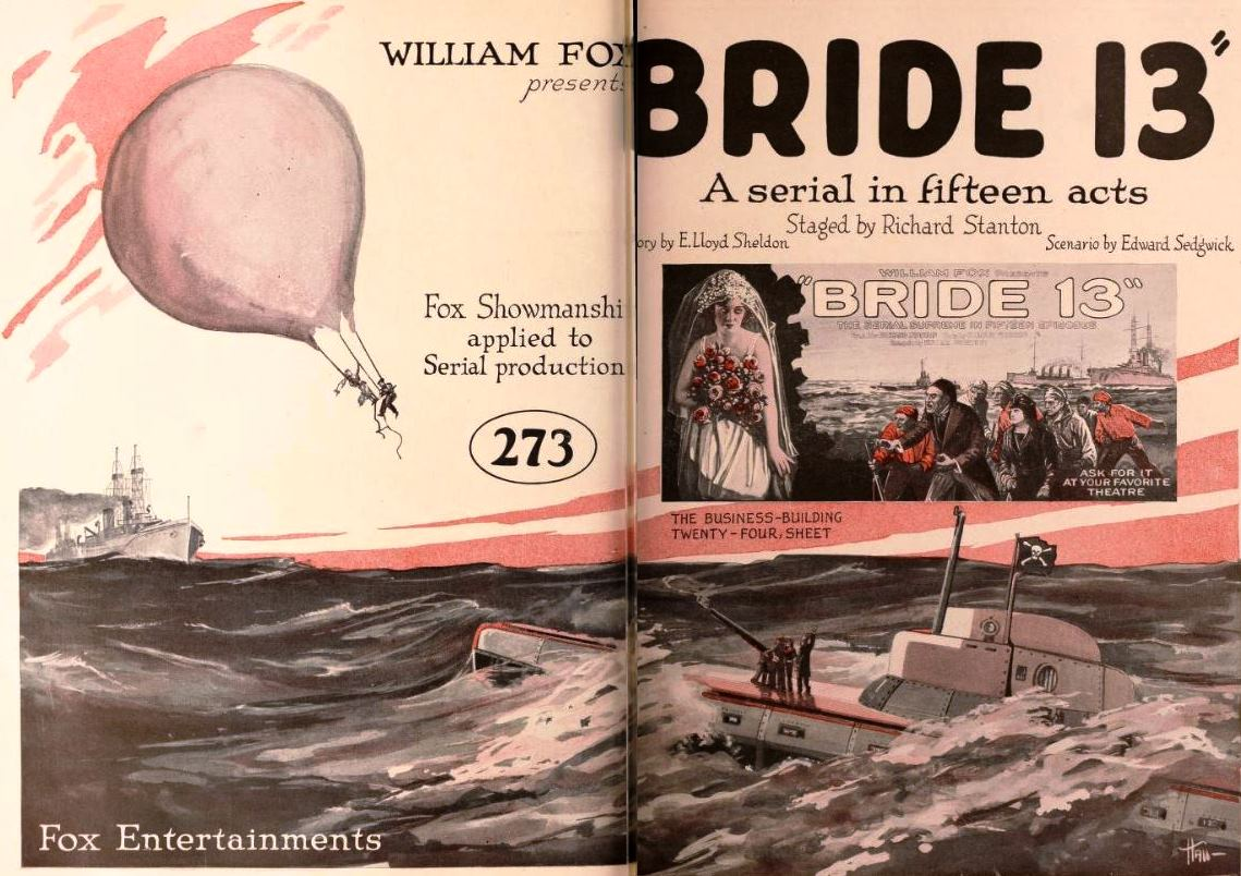 Advertisement for the American film serial Bride 13 (1920) with Marguerite Clayton, from the insert after page 66 of the August 14, 1920 Exhibitors Herald.